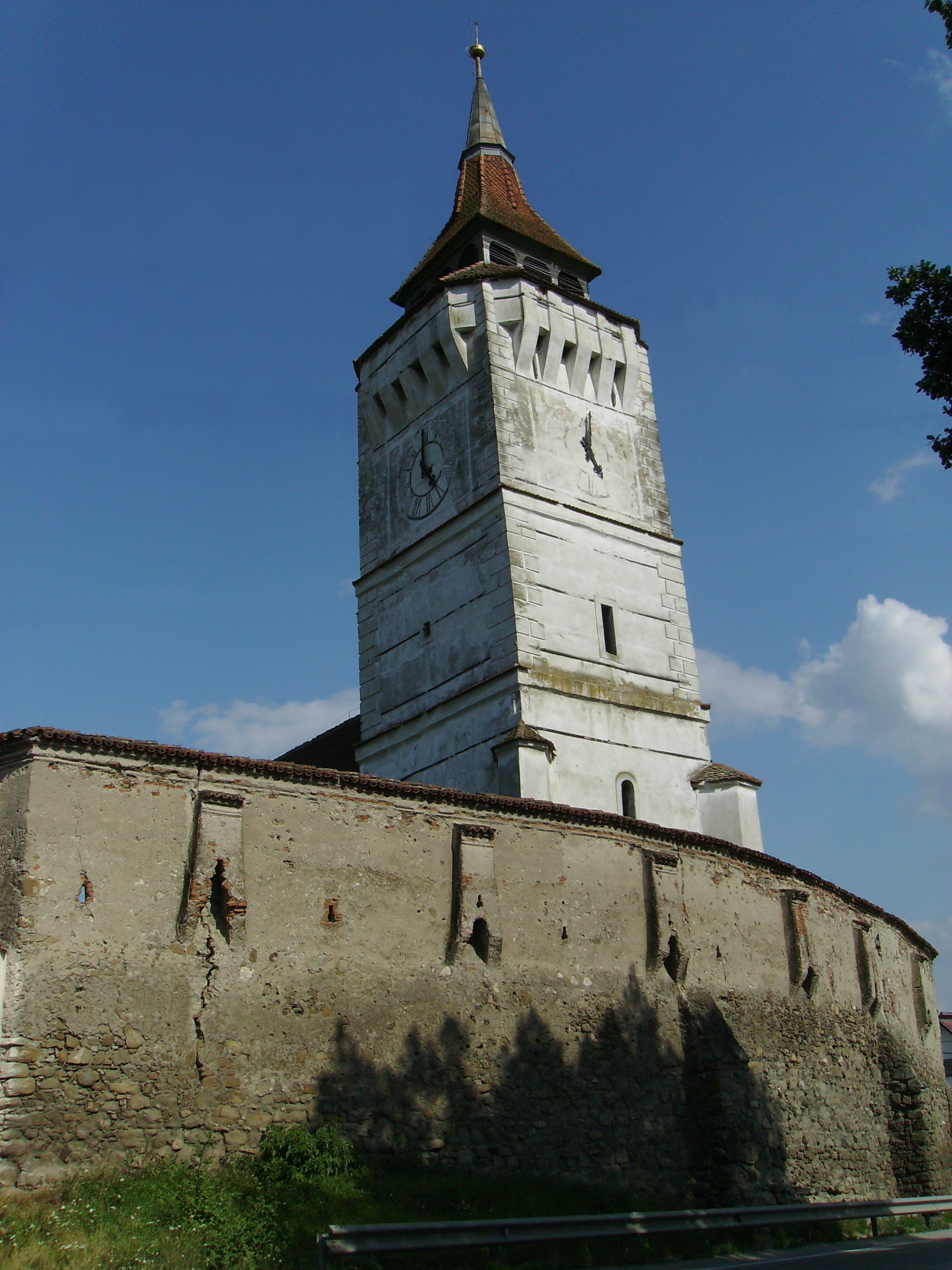 Fortified church of Rotbav, Transilvania, Romania. Virtually every village of this region has a fortified church in good shape, let alone ruined strongholds, forts and fortified castles.